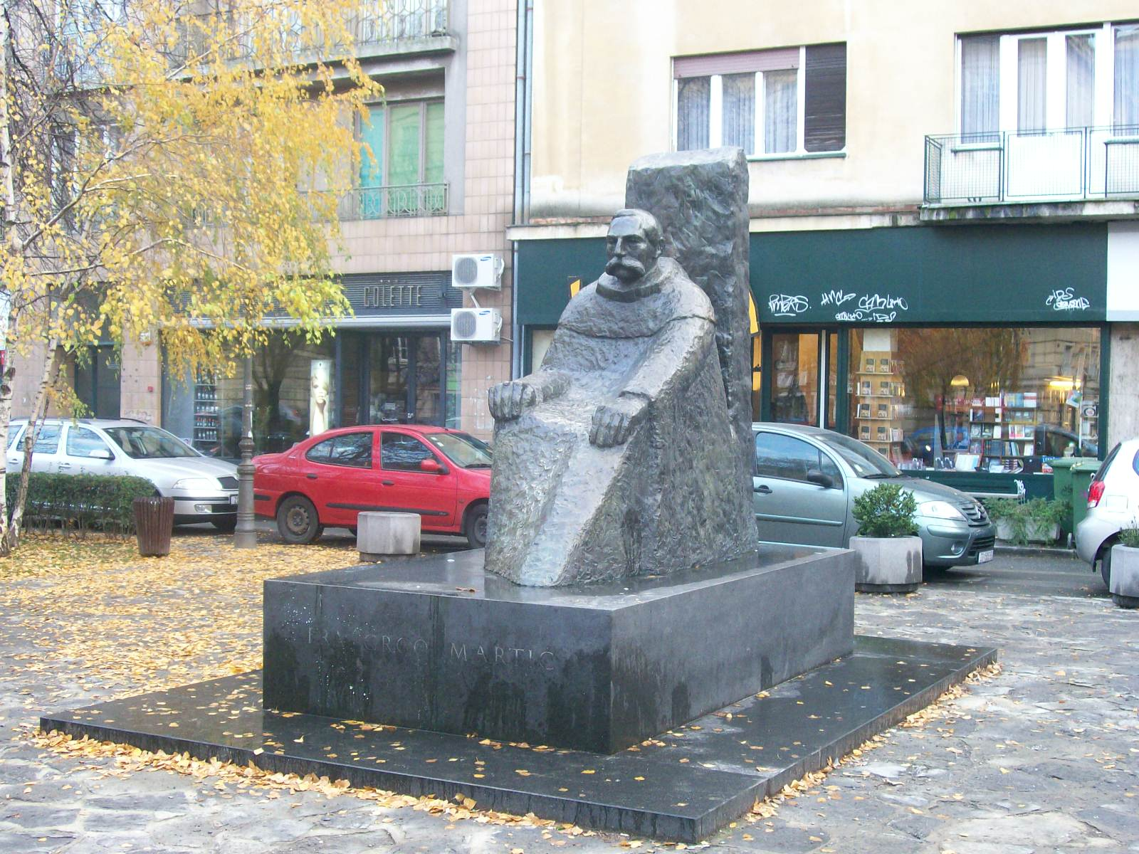 Monument to Grgi Martiću, Zagreb, Croatia